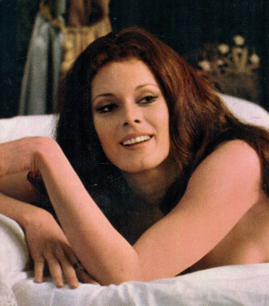 Jamaican-English actress Martine Beswick on the set of the film Il bacio directed by Mario Lanfranchi (1974).